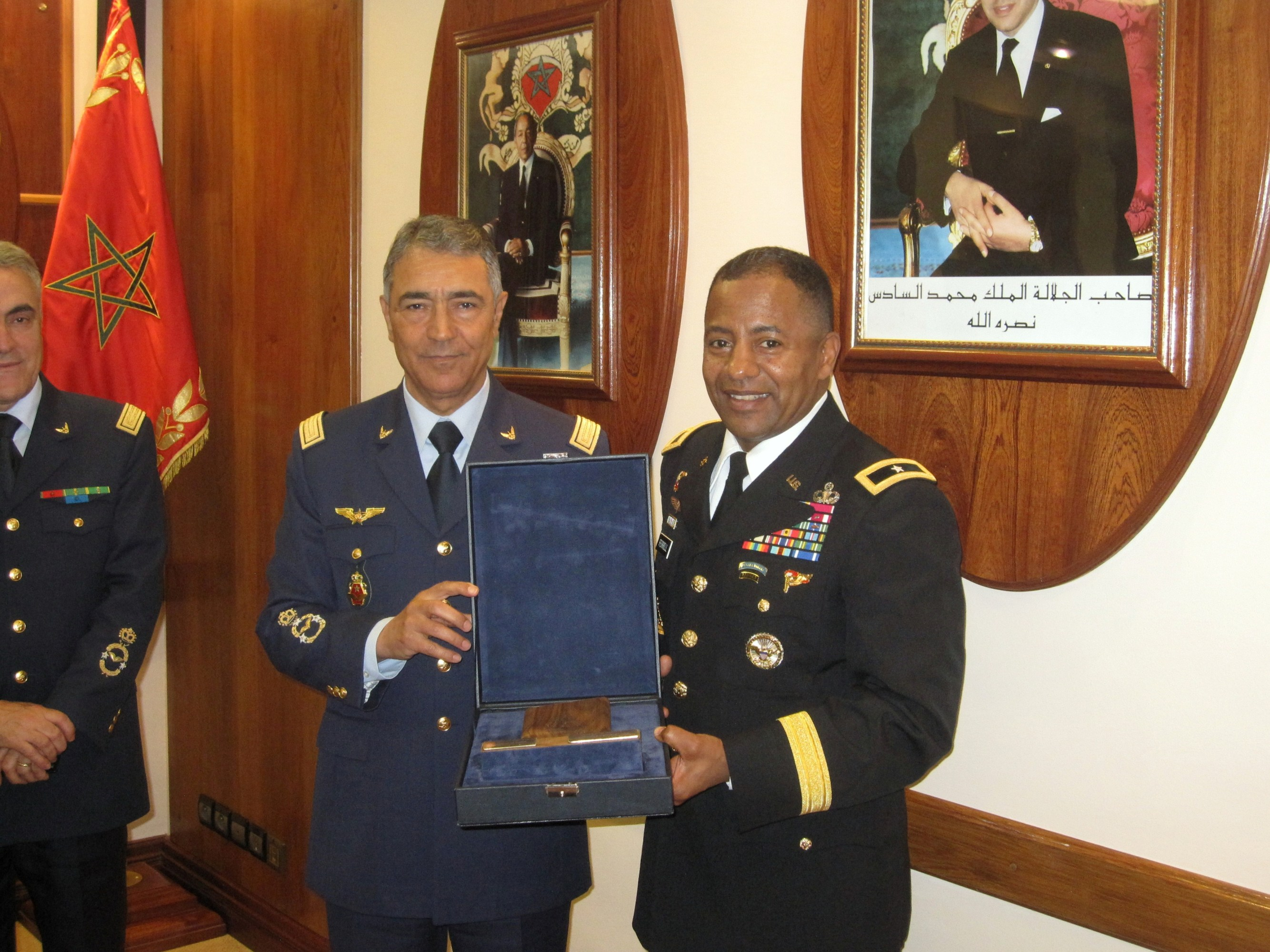 RABAT-SALE, Morocco - Major General Ahmed Boutaleb, inspector of the Moroccan Air Force, Royal Armed Forces, presents Brigadier General Robert Ferrell, director of C4 Systems, U.S. Africa Command, with a gift following a meeting on March 2, 2010, at the Royal Armed Forces Headquarters in Rabat, Morocco. Ferrell was in Morocco discussing communications modernization initiatives between the United States and Morocco.